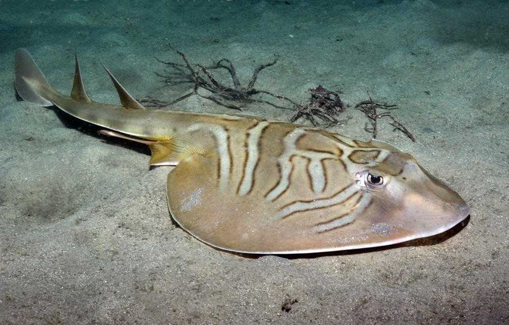 Male Eastern fiddler ray (Trygonorrhina fasciata) in Jervis Bay, New South Wales.